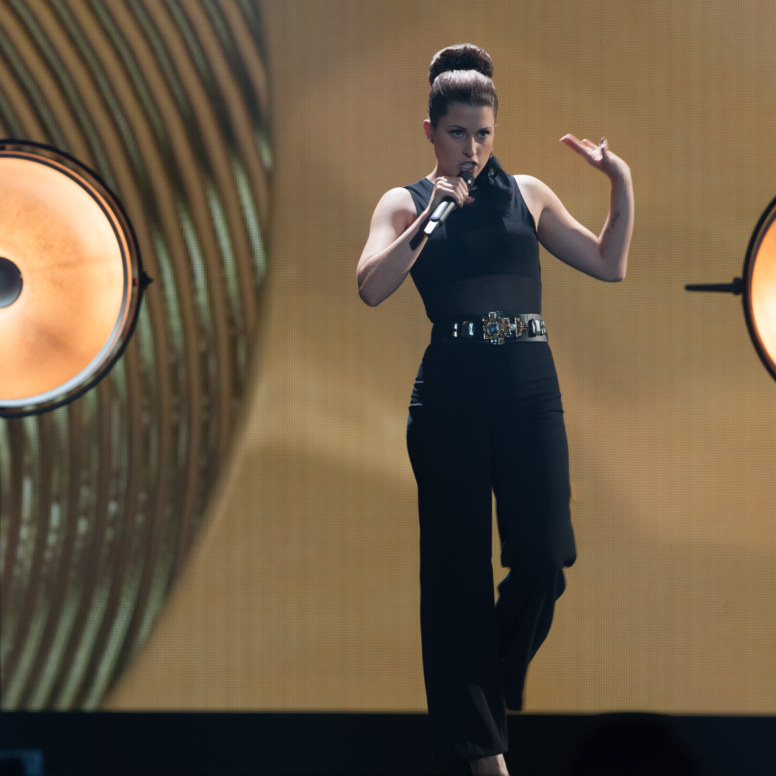 Eurovision Song Contest Vienna 2015: Ann Sophie